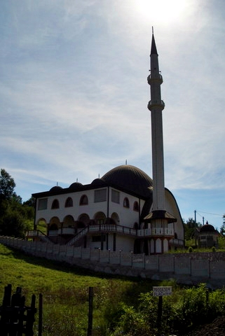 A mosque in Đurđevik